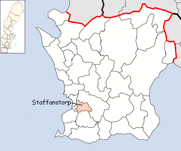 Staffanstorp Municipality in Scania, Sweden Designed by me. Mere outlines are a PD source from